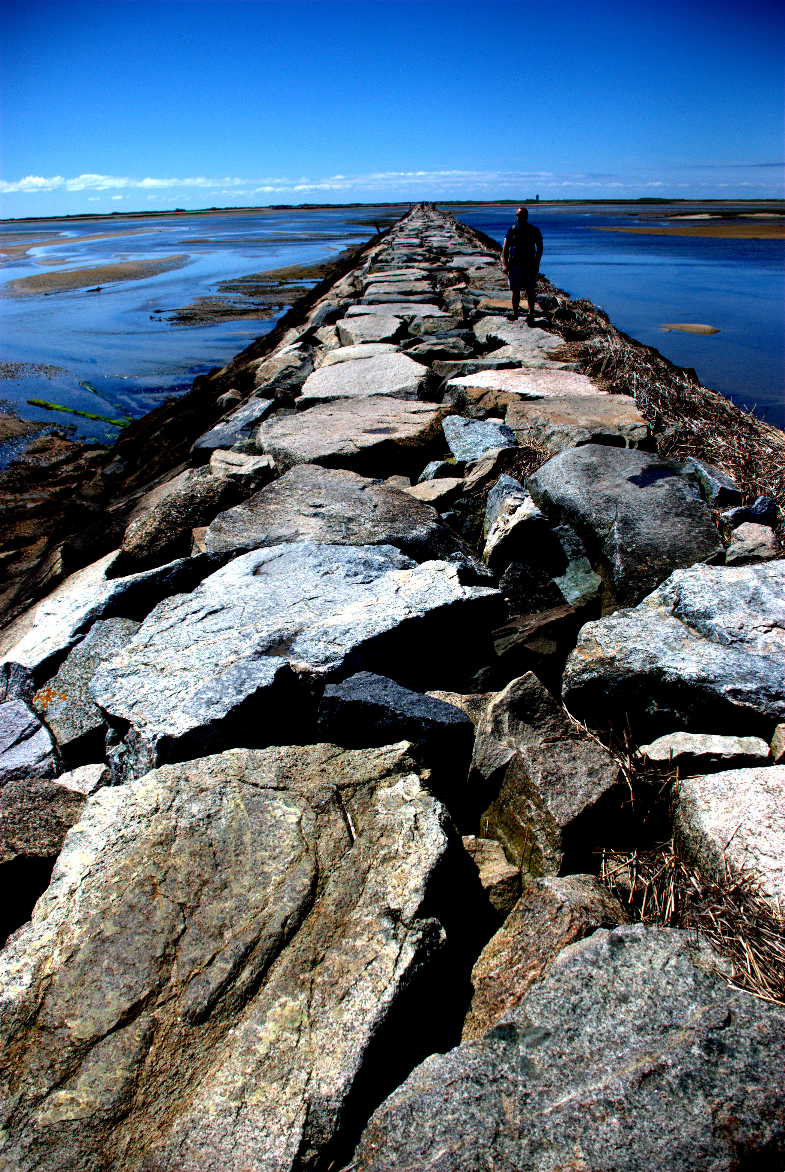 The breakwater, or dike, in the extreme West End of Provincetown, Massachusetts. This is next to the West End rotary, or roundabout, at the very end of Commercial Street. The breakwater extends all the way out to Wood End, which is at the southwest end of Long Point. In the distance, above the subject's head, is Wood End Light. Long Point Light is also accessible from there, off the left side of the image. NOTE: the trip across the breakwater takes about an hour each way, as the rocks get rougher the further out you go. Also, you should time your trip there (and back!) to avoid high tide, because a section of the breakwater gets submerged, and can have dangerous cross-currents that can sweep a person off of their feet.